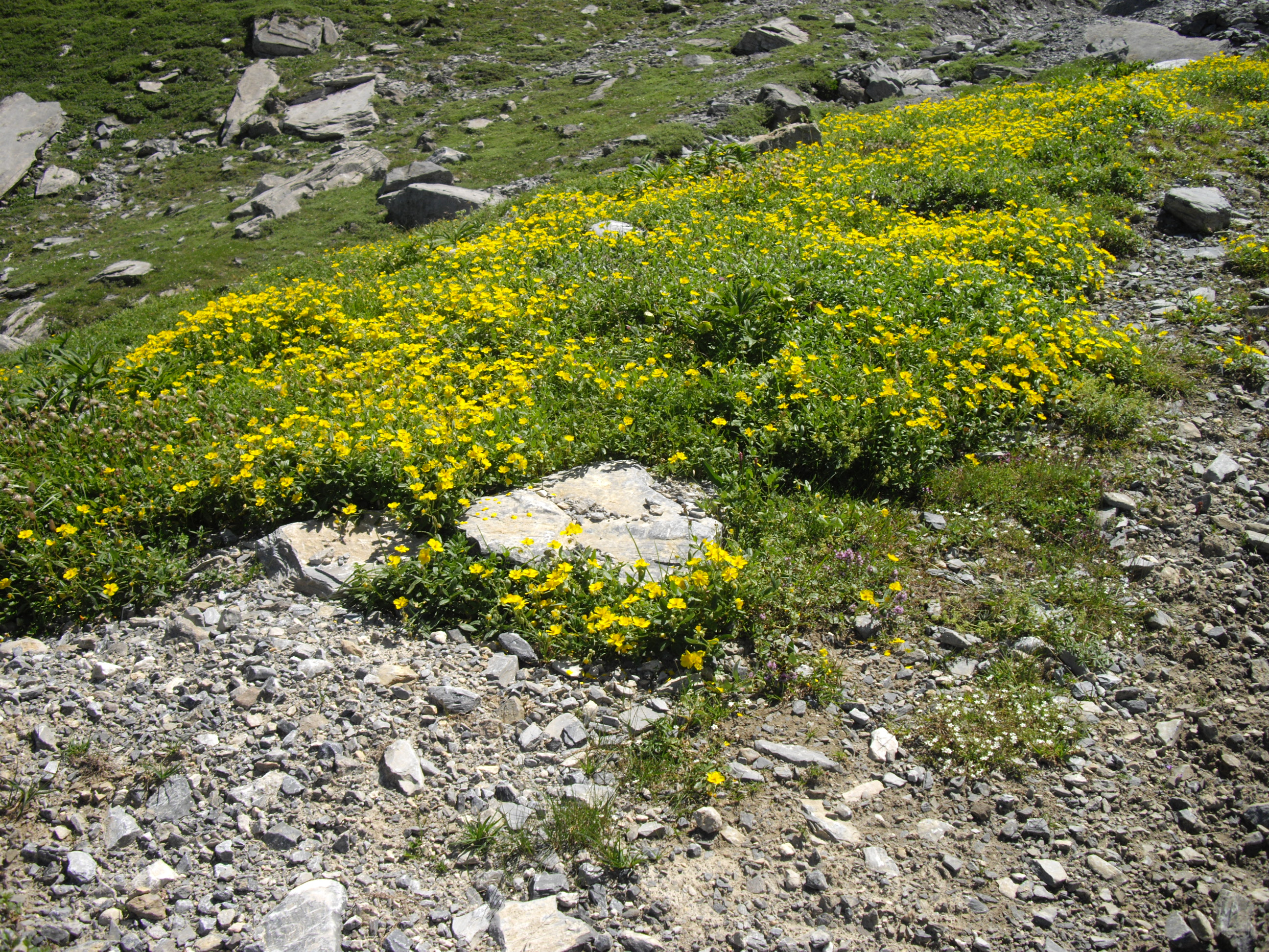 Helianthemum nummularium